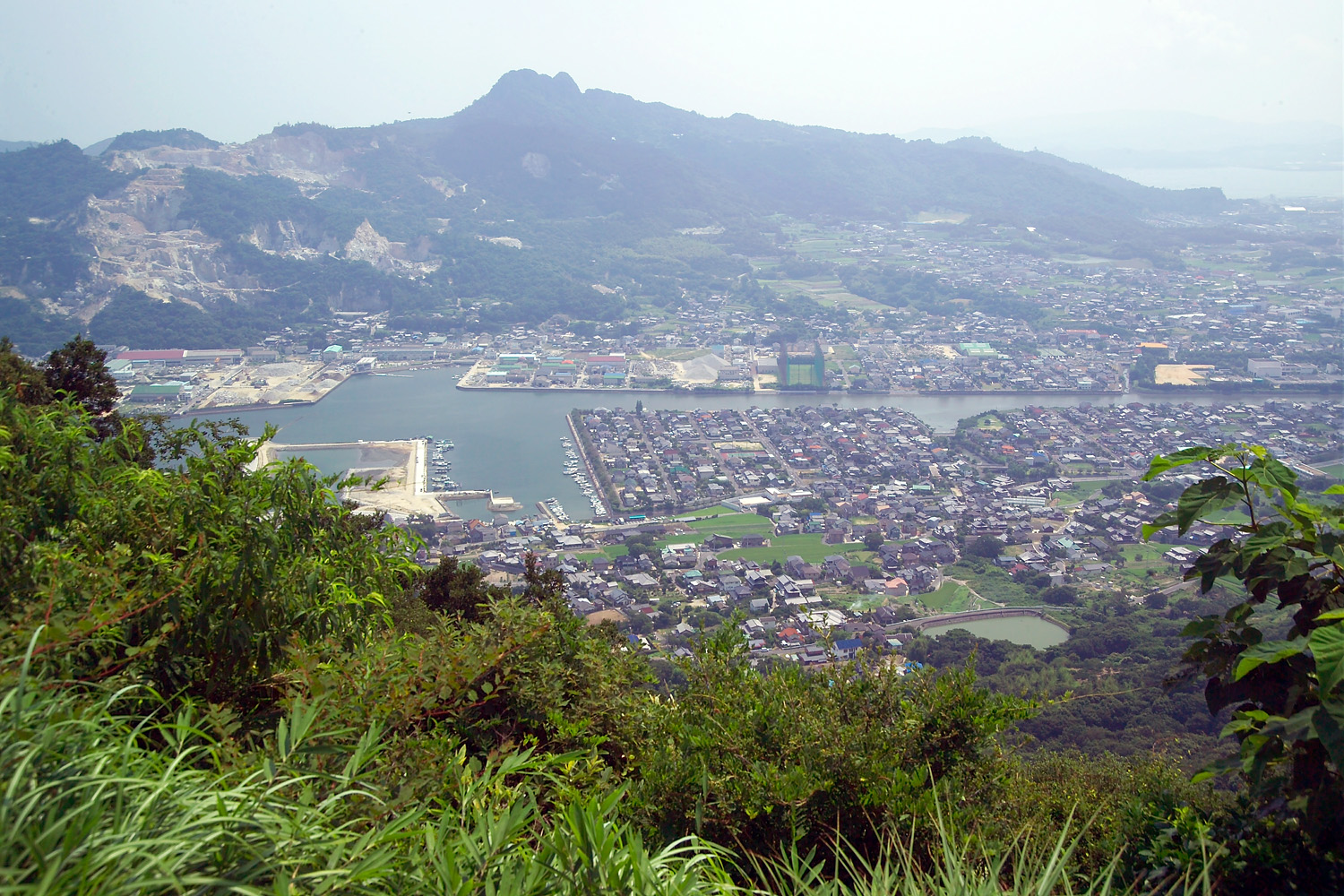 This photograph shows the site of the battle of Yashima in Takamatsu, Kagawa Prefecture, Japan. I took the photo and contribute my rights in the file to the public domain.